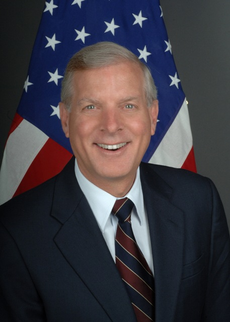 Christopher W. Murry, U.S. diplomat. As of 2010, U.S. Ambassador to the Republic of the Congo.